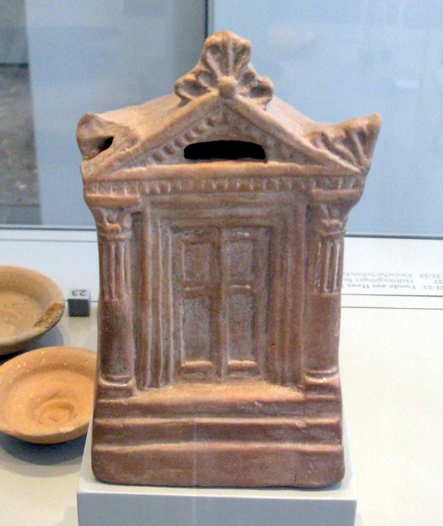 Money box in shape of a temple, from house 25 in Priene; 2nd century B.C..